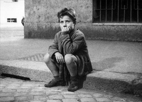 screenshot from the film Bicycle Thieves (1948)